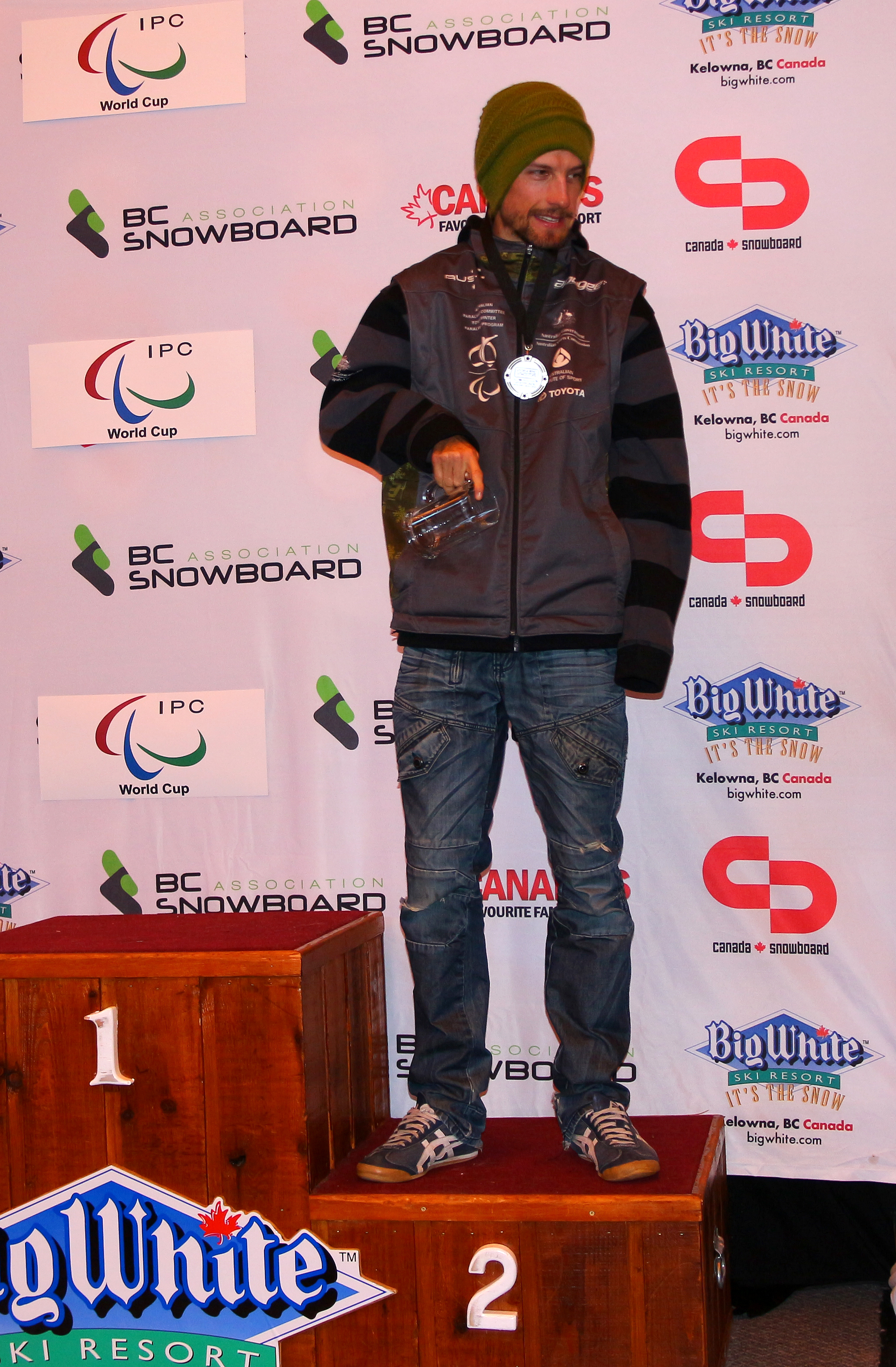 Australian Para-snowboarder Matt Robinson won Australia's first world cup snowboard medal in January 2014